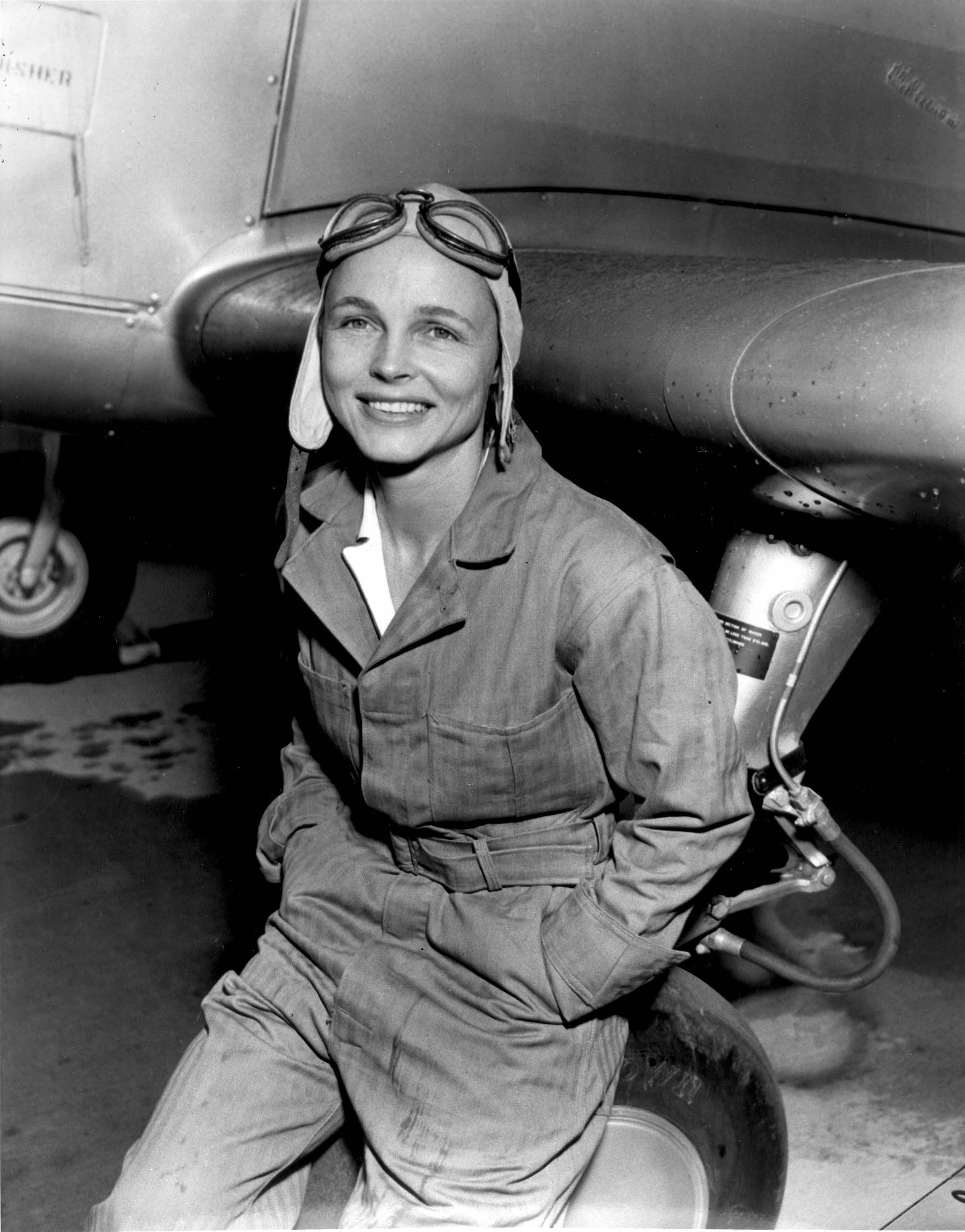 EARLY YEARS -- Mrs. Betty H. Gillies was the first woman pilot to be "flight checked" and accepted by the Women's Auxiliary Ferrying Squadron. Mrs. Gillies, 33 years of age, has been flying since 1928 and received her commercial license in 1930. She has logged in excess of 1400 hours flying time and is qualified to fly single and multi-engined aircraft. Mrs. Gillies is a member of the Aviation Country Club of Hicksville L.I. and is a charter member of the 99s, an international club of women flyers formed in 1929, whose first president was Amelia Earhart. (U.S. Air Force photo)